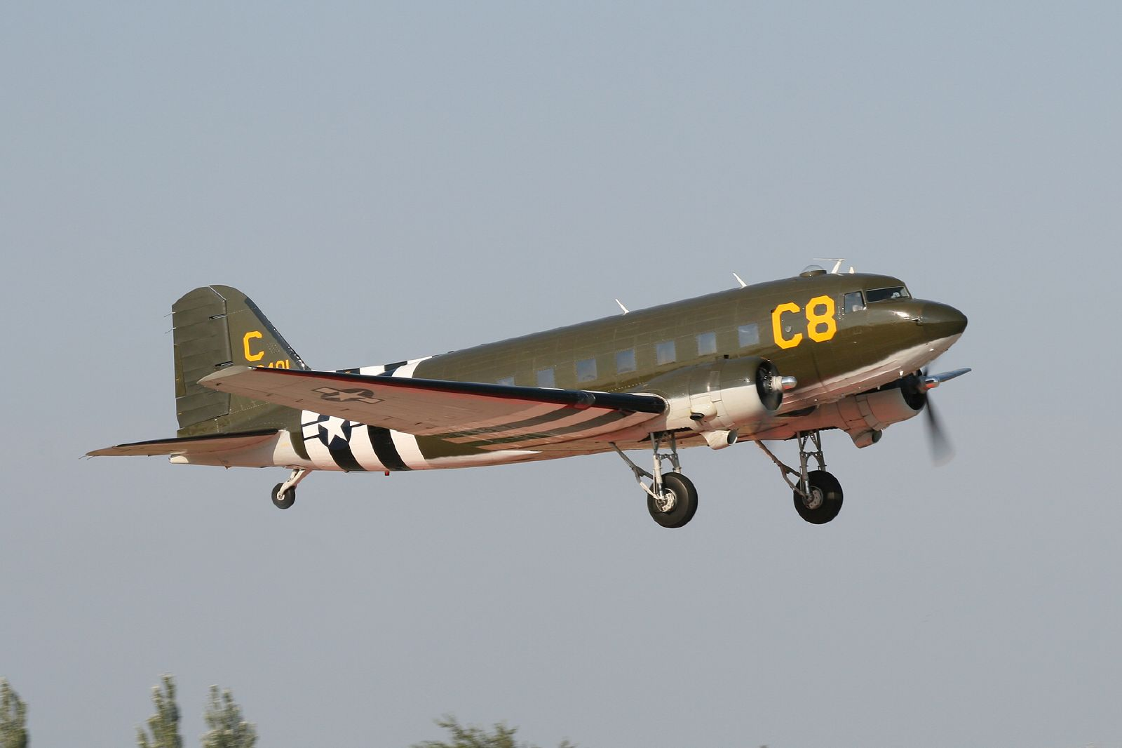 This C-47 is on display at the Cavanaugh Flight Museum. It was delivered to the USAAF on May 29th 1944, and served in the 7th Air Force in Manila. It is painted in D-Day military transport colors. Airventure 2006